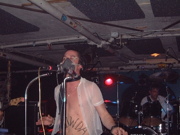 tomahawk